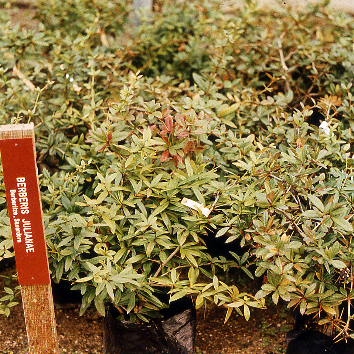 Nursery stocks of Berberis julianae in Christenson nursery Vienna Sept. 1979